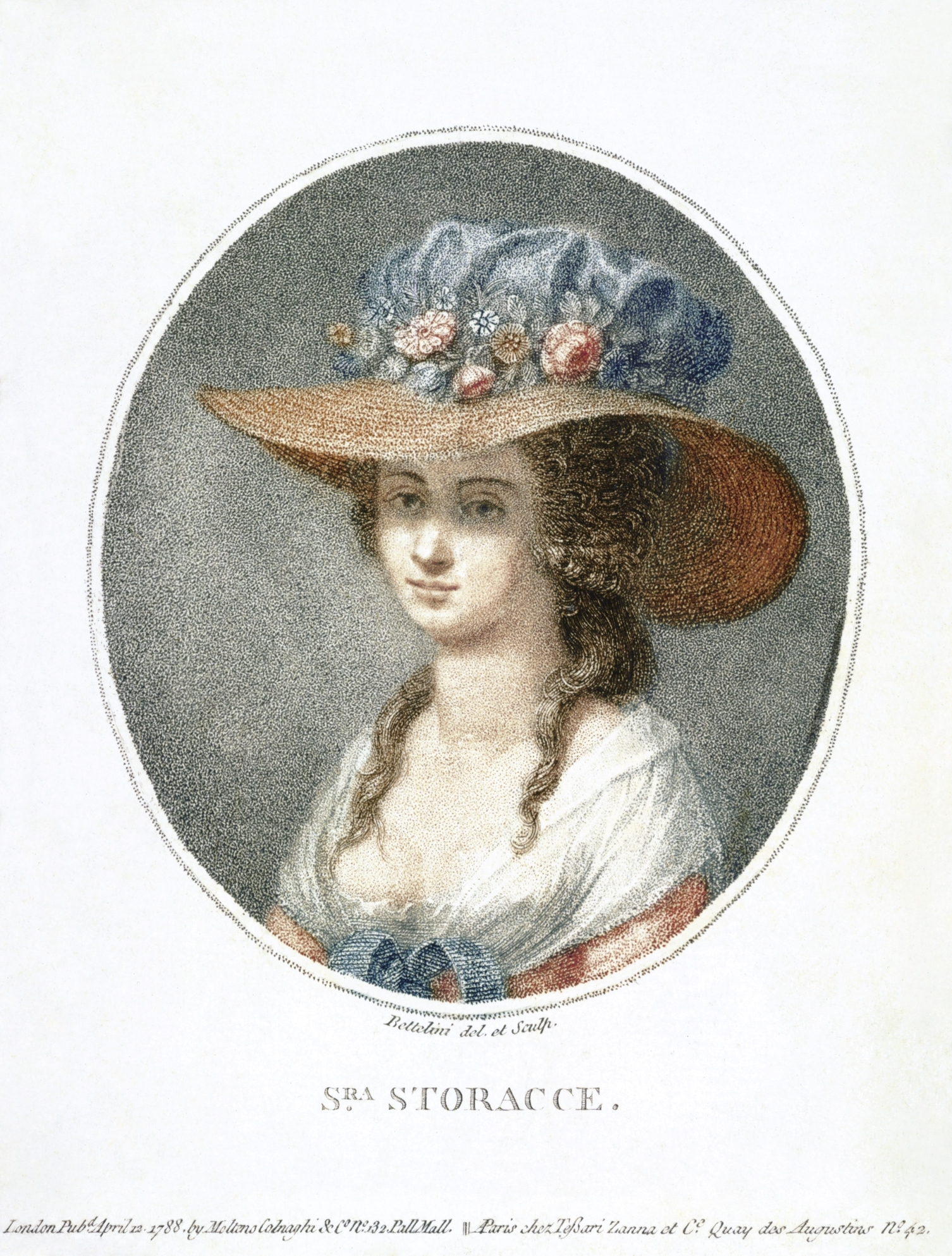 Portrait of Nancy Storace (1765-1817), English soprano. Printed in April 12, 1788 by Moltens Colnaghi & Co No. 32 Pall Mall, and in Paris by chez Tessari Zanna et Ce. Quay de Augustins No 42. This is a retouched picture, which means that it has been digitally altered from its original version. Modifications: There was a lot of staining to the paper, and one or two bits where either the hand-tinting hadn't been done very well, or water damage had occured. As the hand-tinting was generally done as a batch, and not by the artist who made the original engraving, I decided to try and make it look like the best possible copy of the mass-produced hand-tinted engraving..